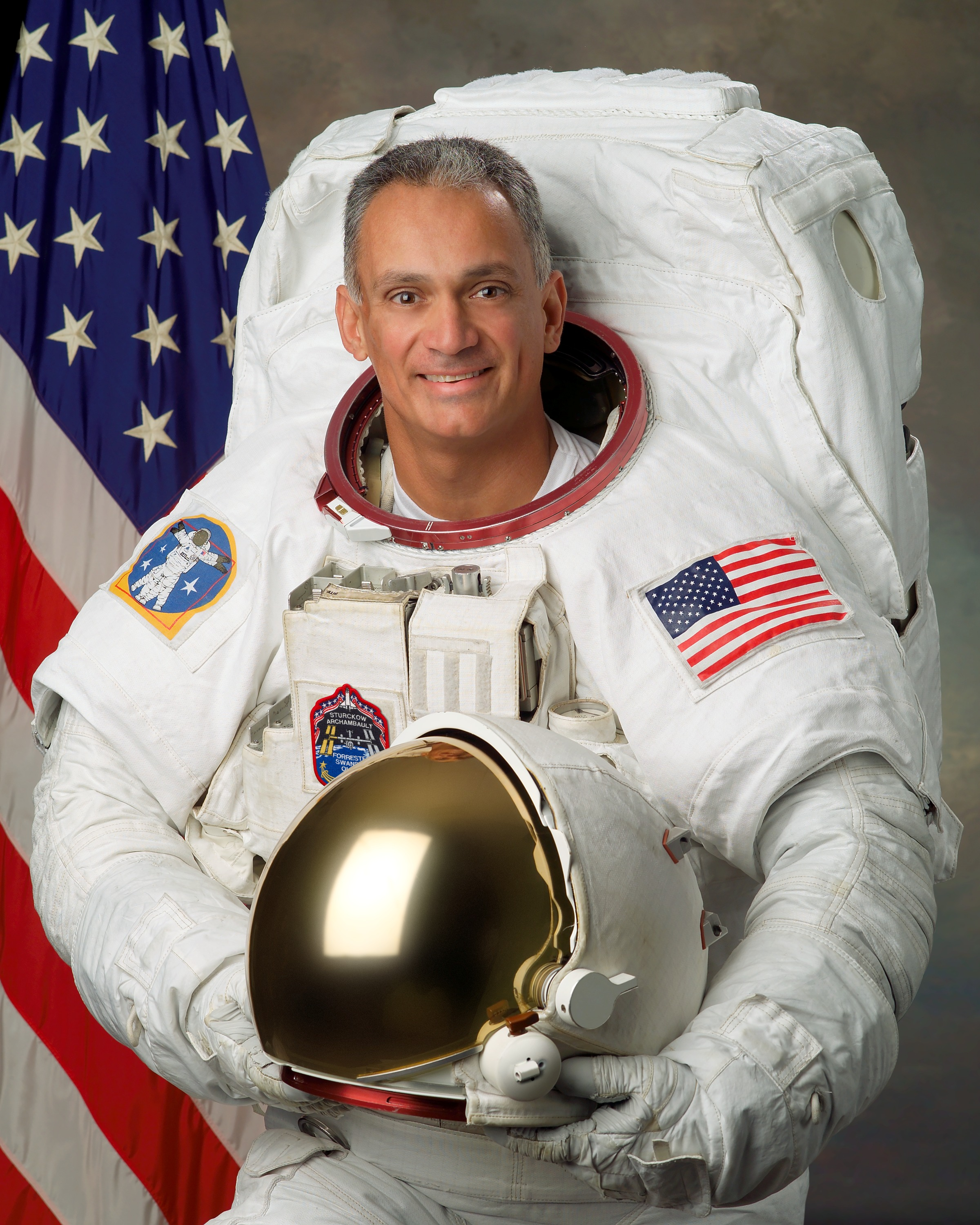 Official portrait image of NASA astronaut John (Danny) Olivas Date: September 18, 2006